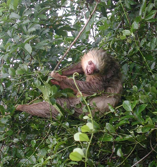 Hoffmann's Two-toed sloth in Costa Rica